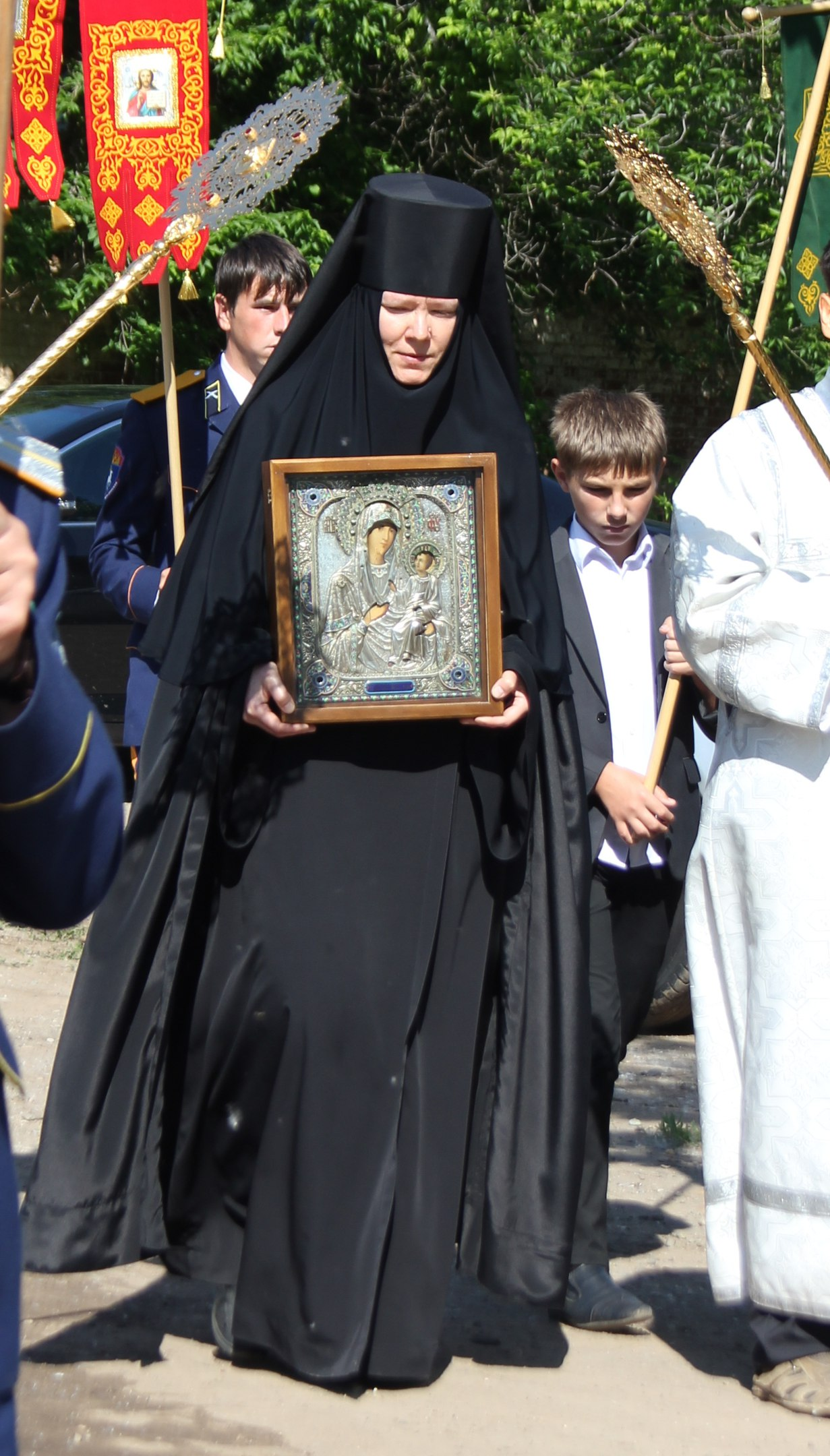 Зубовка